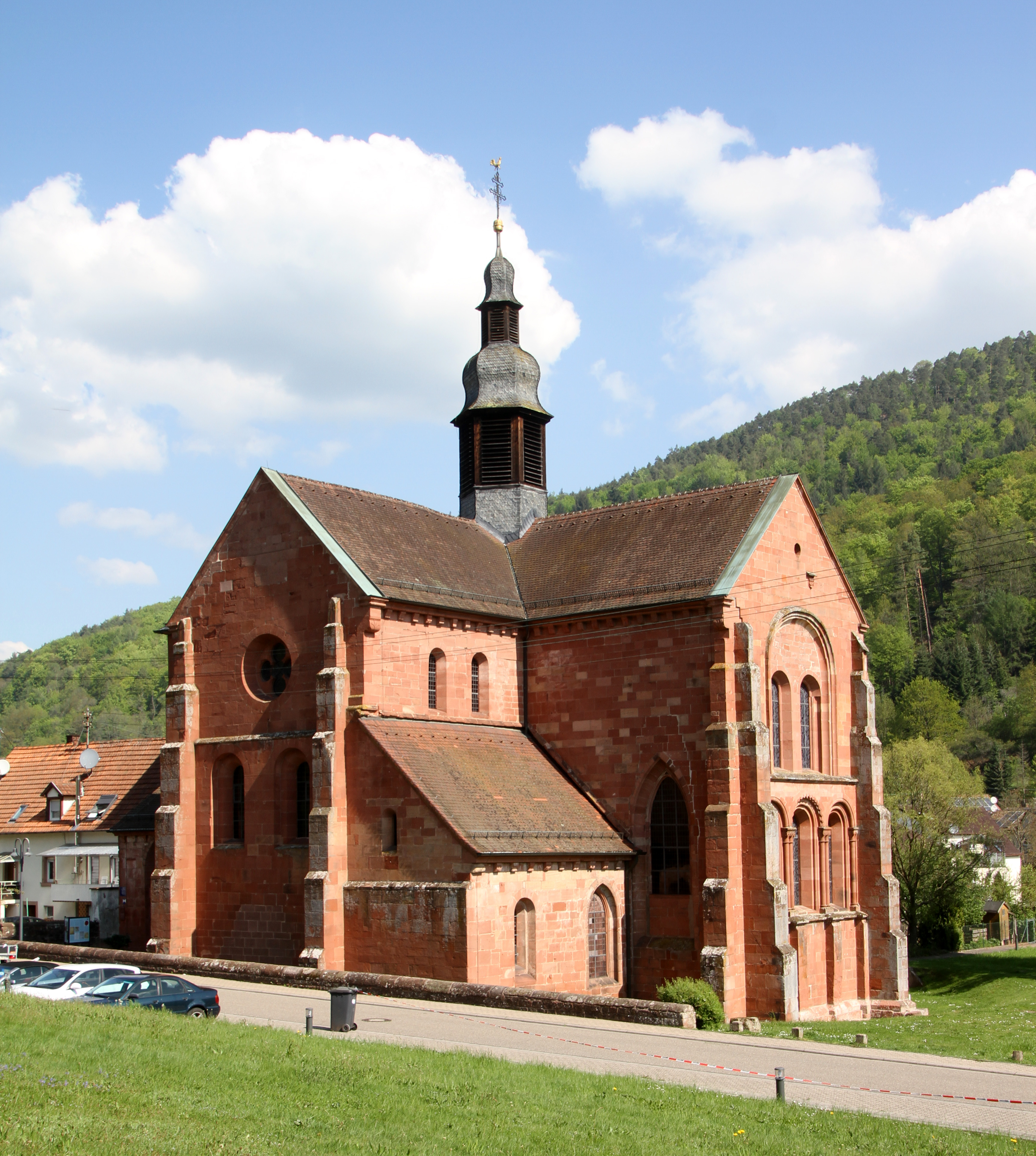 Church of Saint Bernard in Eußerthal.